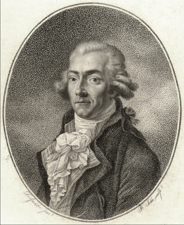 Engraving of the celebrated 18th century bass singer Francesco Benucci. By Friedrich John, after a painting by Joseph Dorffmeister, ca. 1800